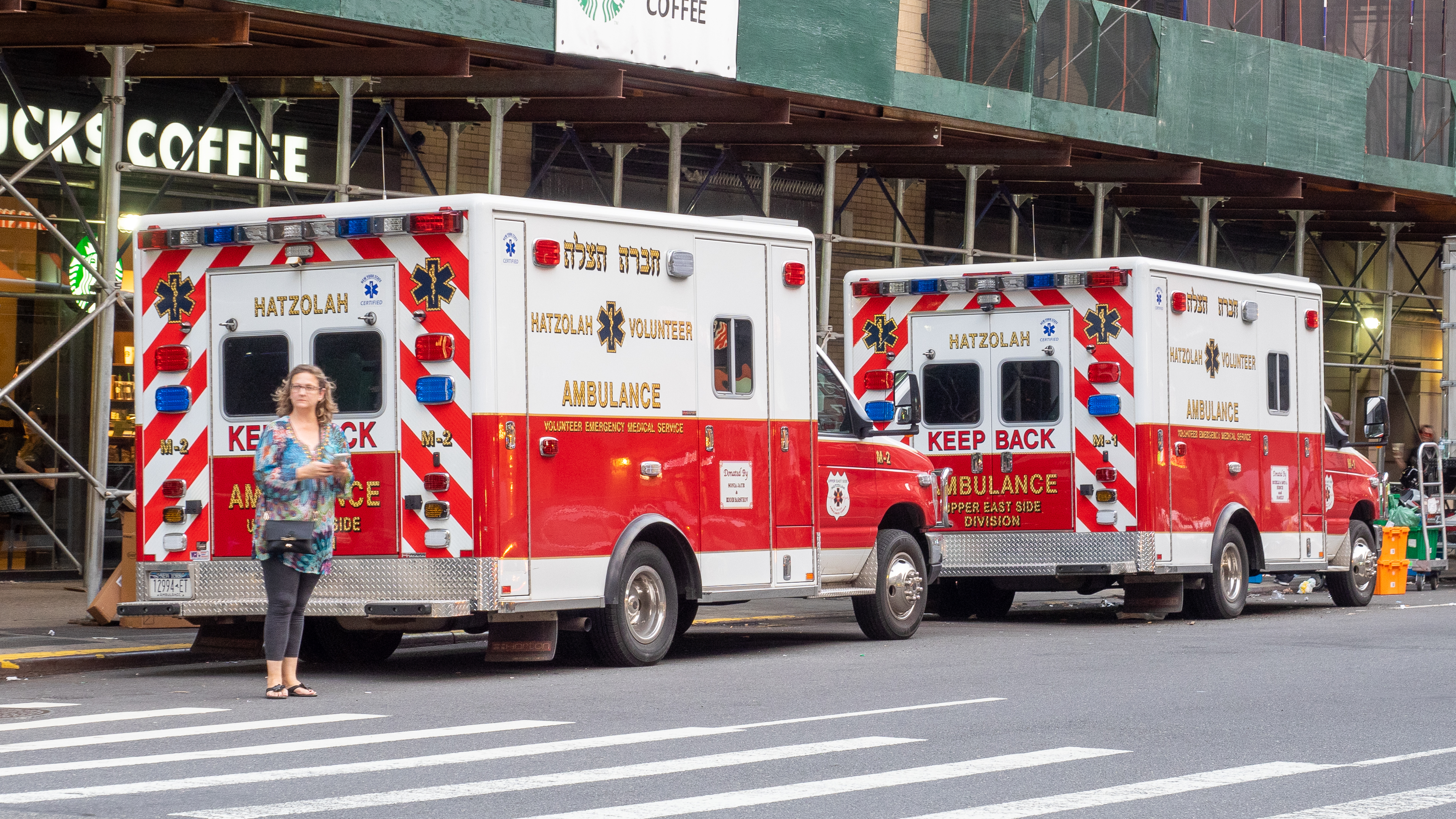 Upper East Side, Manhattan, New York